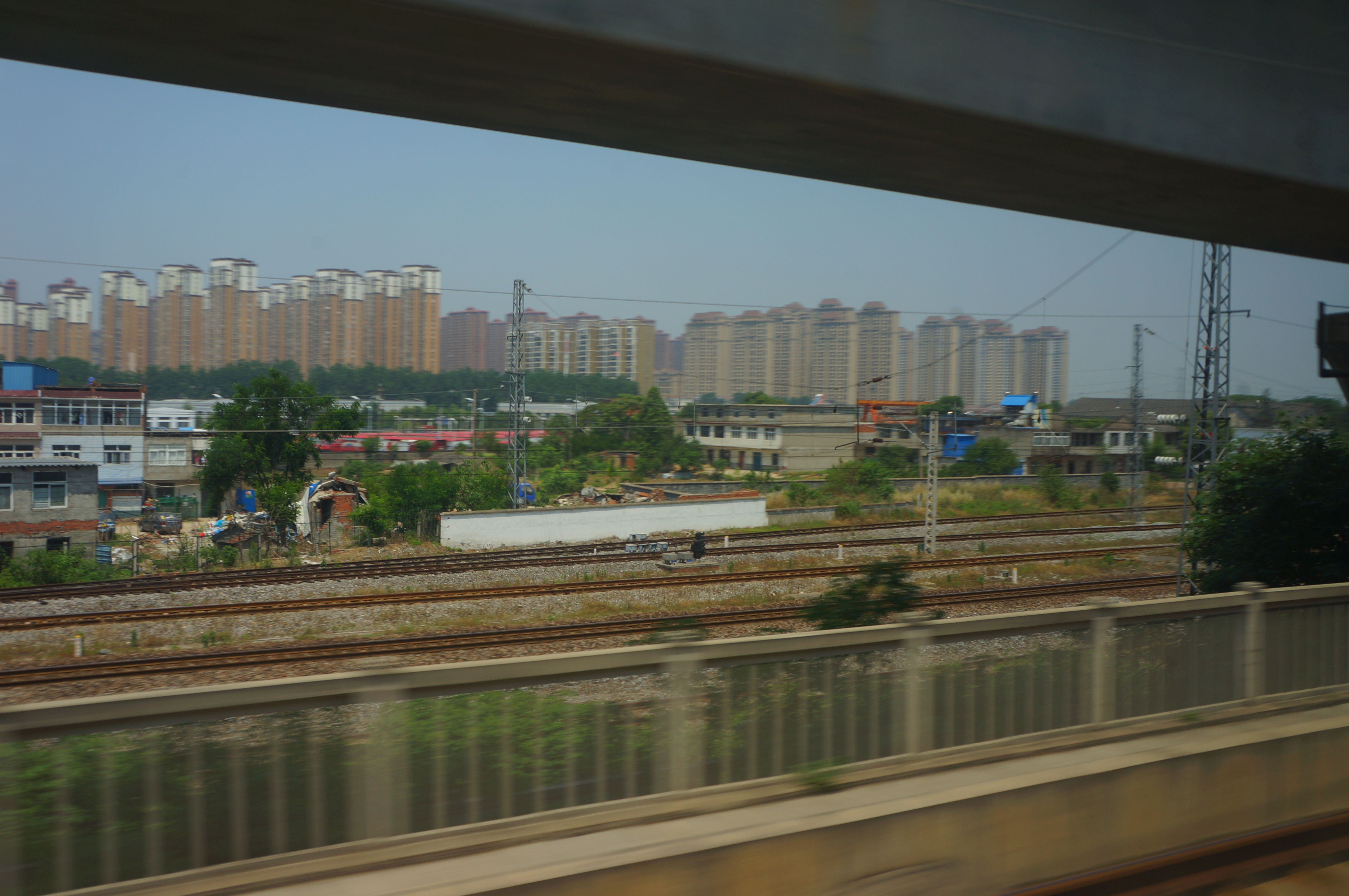 201705 Shuangdunji Railway Station